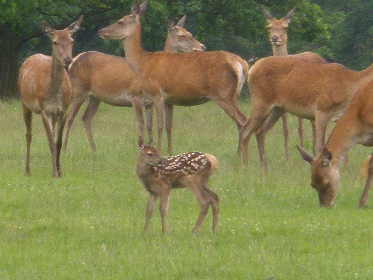 Western European red deer (Cervus elaphus elaphus) fawn in Richmond Park, England.